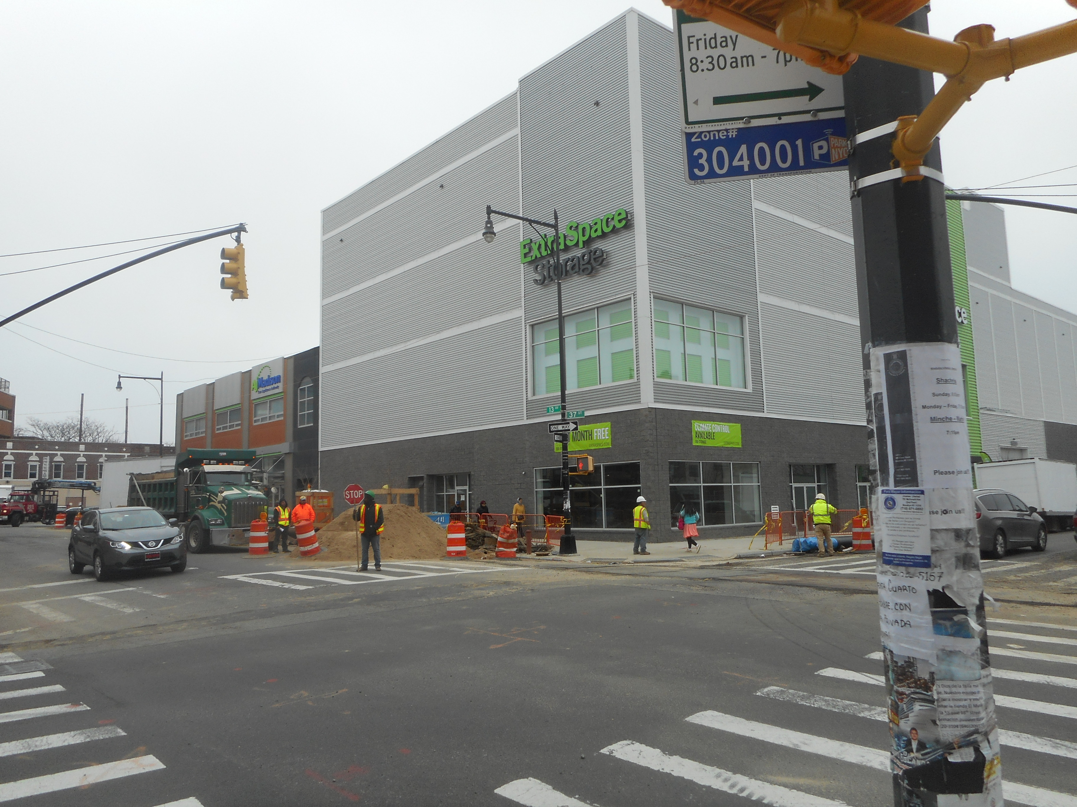 Looking northeast from the southwest corner of the intersection with 13th Avenue and 37th Street in the Kensington section of Brooklyn, New York City. The intersection is the former site of the 13th Avenue (BMT Culver Line) station, which existed from 1919 to 1975. The next station southeast of here is the still existing Ditmas Avenue station on the IND Culver Line.